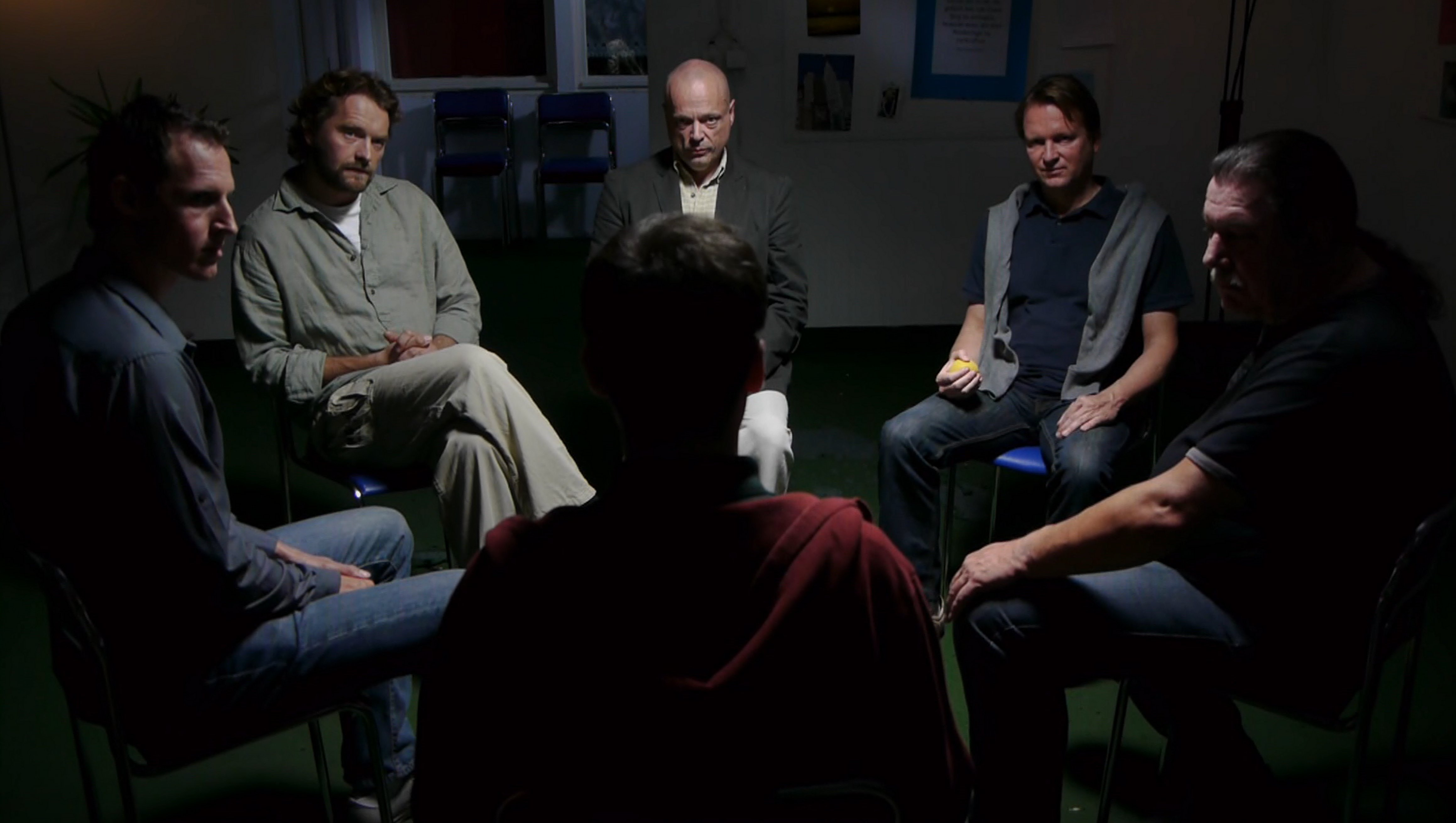 Scene from the Motion Picure eMANcipation with Peer Alexander Hauk, Michael Schwager, Roland Avenard, Jan Marc Kochmann, Hans Ulrich Laux & Urs Stämpfli